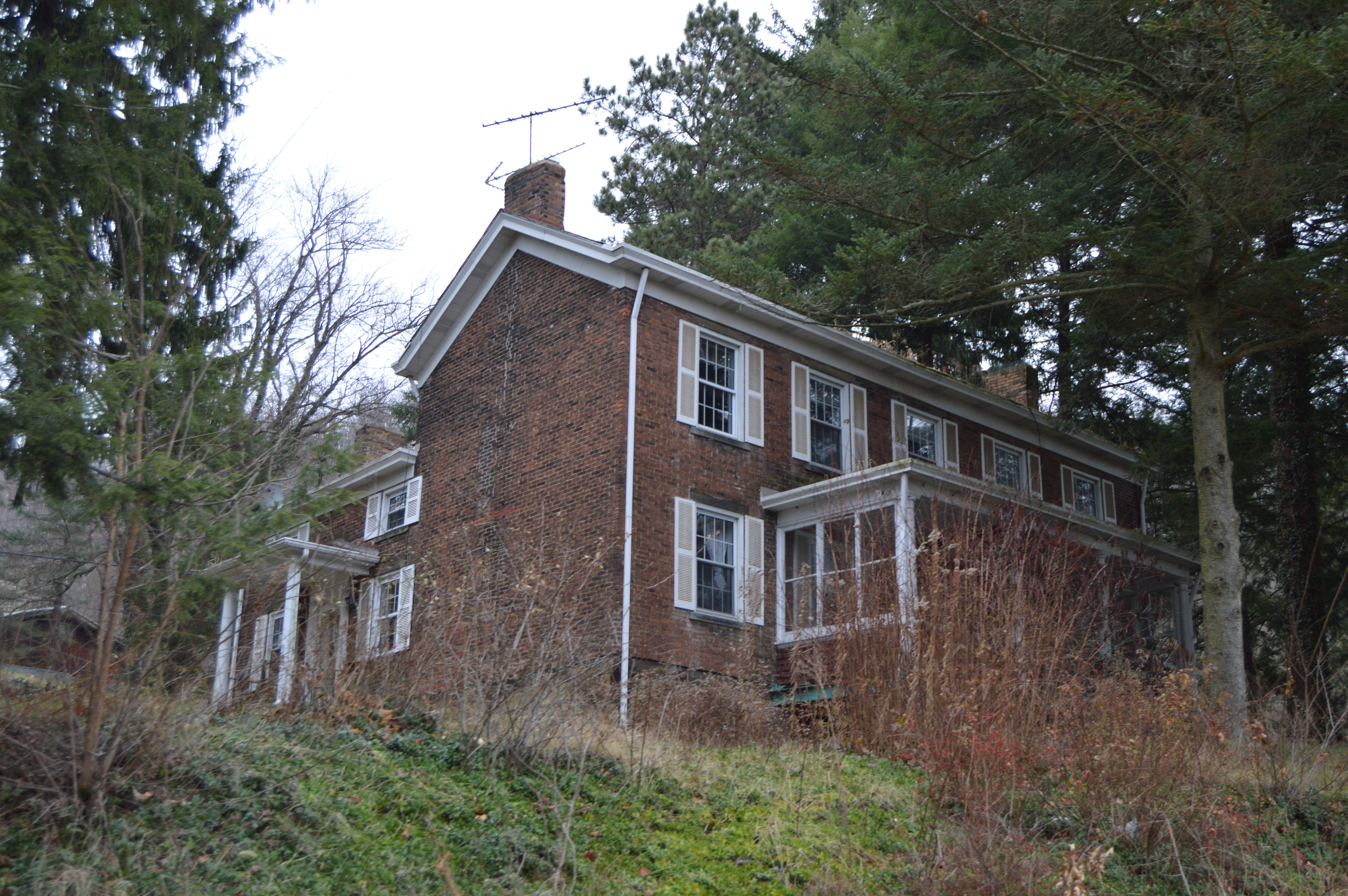 Western side and front of the Fombell House, located on the northern side of Old Furnace Road at Fombell in Franklin Township, Beaver County, Pennsylvania, United States. It was built in 1829 by community founder and namesake Alexander Fombell.